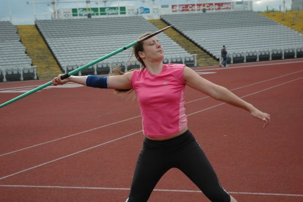 Throwing Javelin